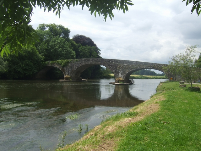 Kilsheelan Bridge on the River Suir